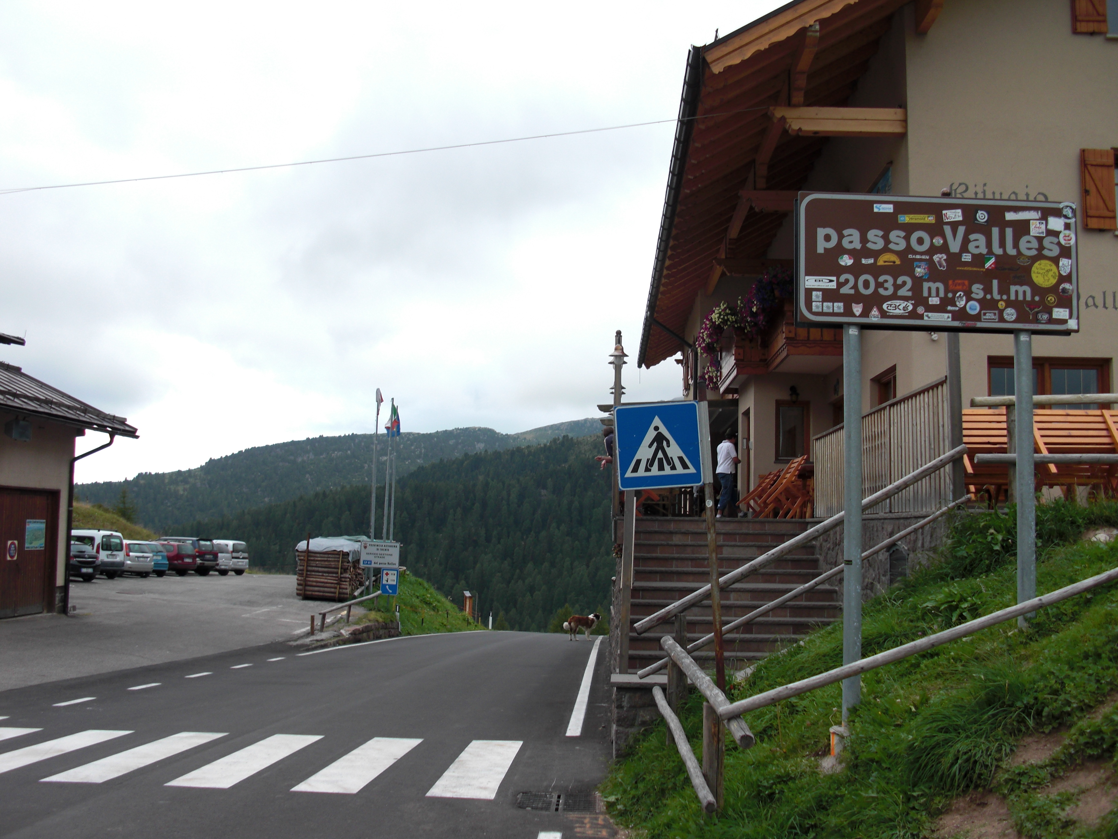 Passo Valles: Summit with sign